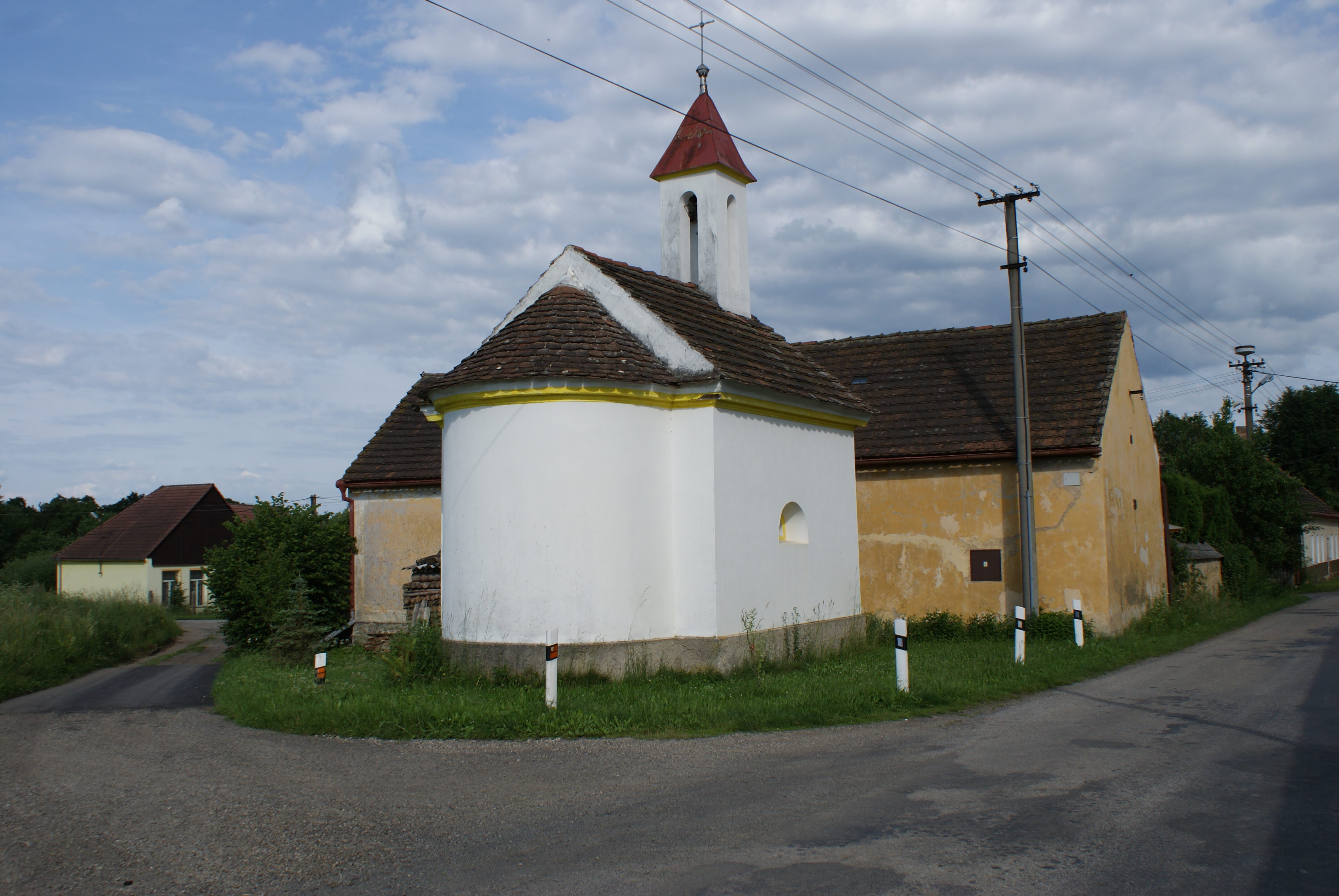 Pohorovice village in Strakonice district, Czech Republic, the chapel from the rear.